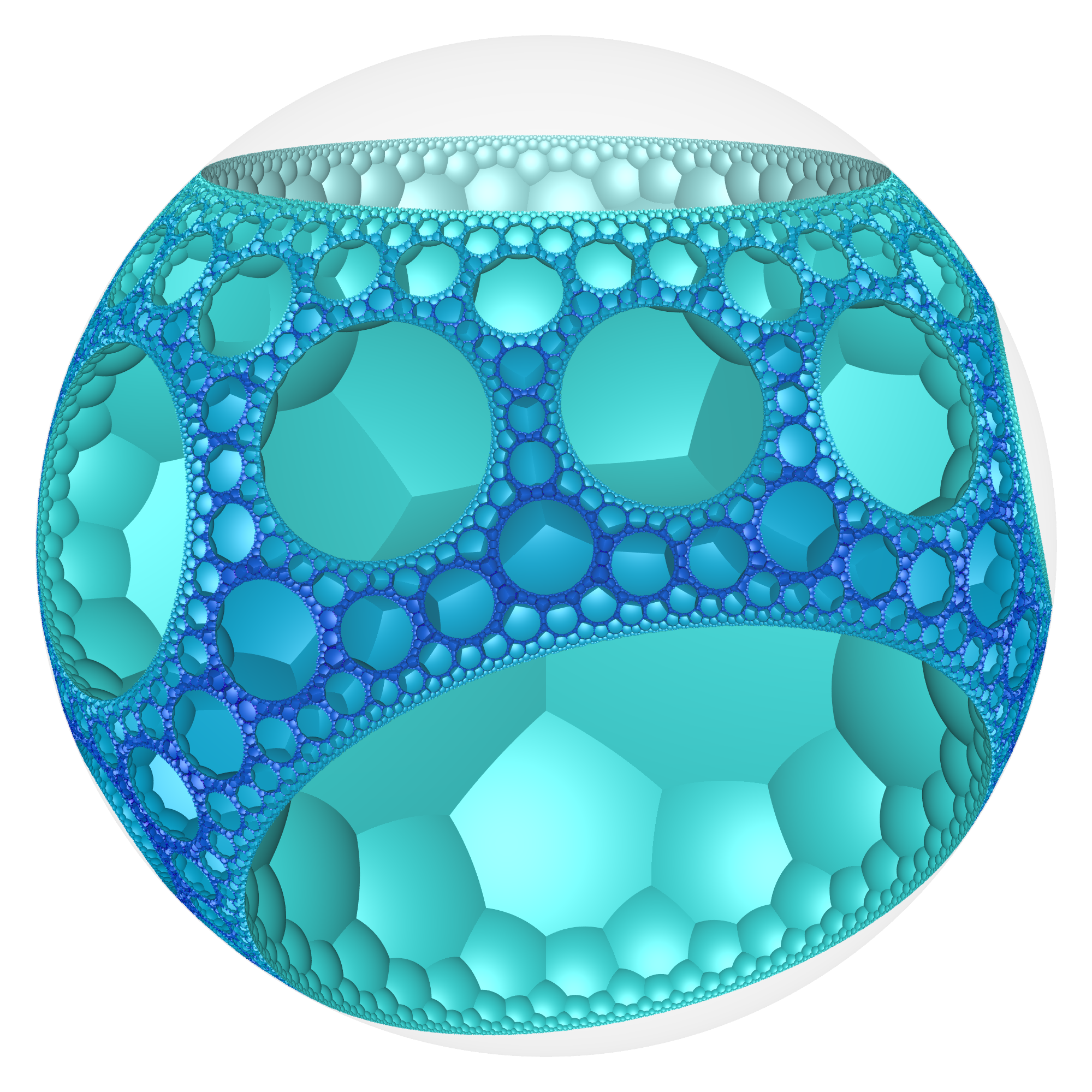 Regular, hyperideal {7,3,3} honeycomb in hyperbolic 3-space, shown vertex-centered in the Poincaré ball model.